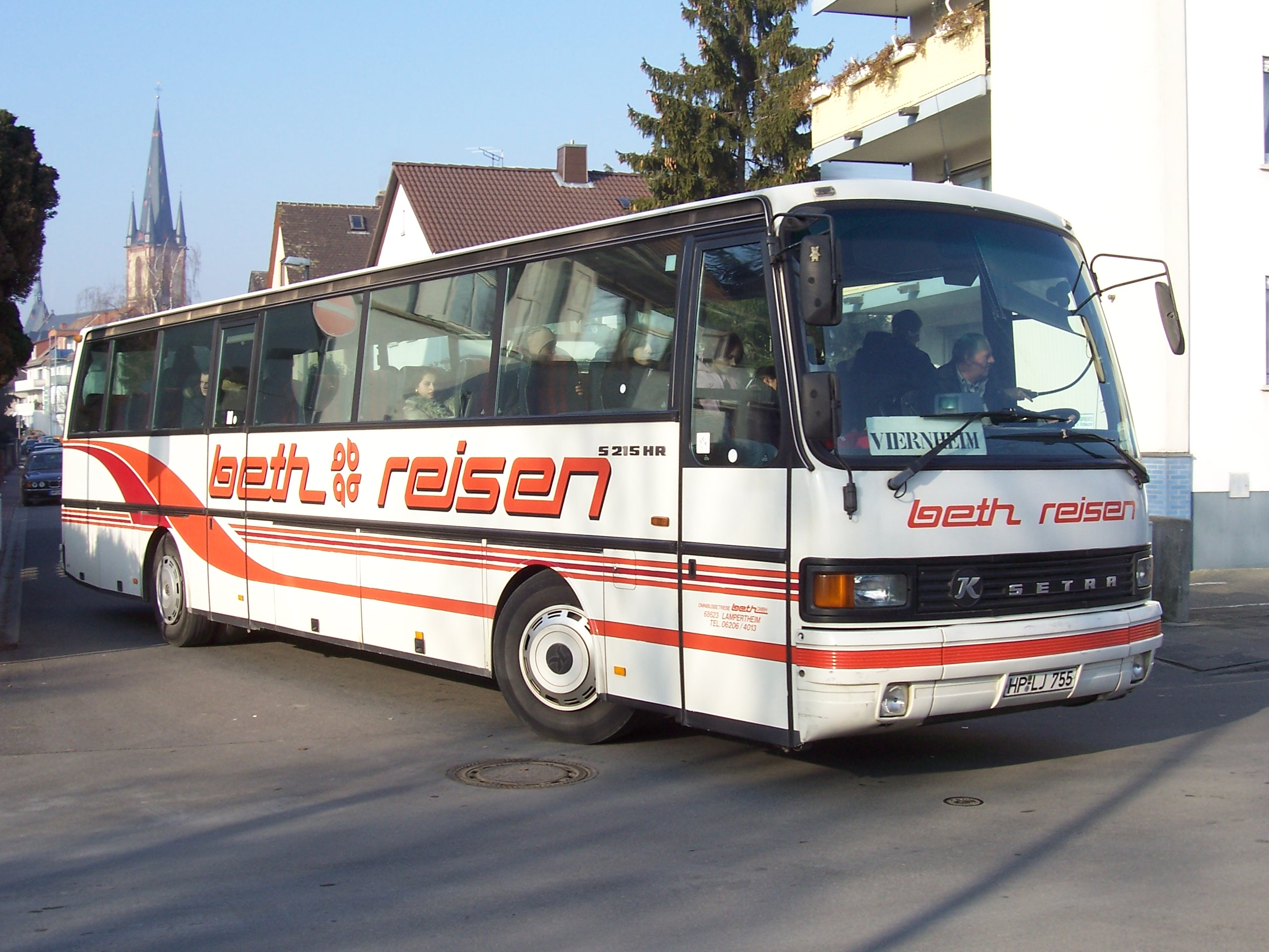 A Setra S 215 HR bus in Viernheim, Germany My own photo